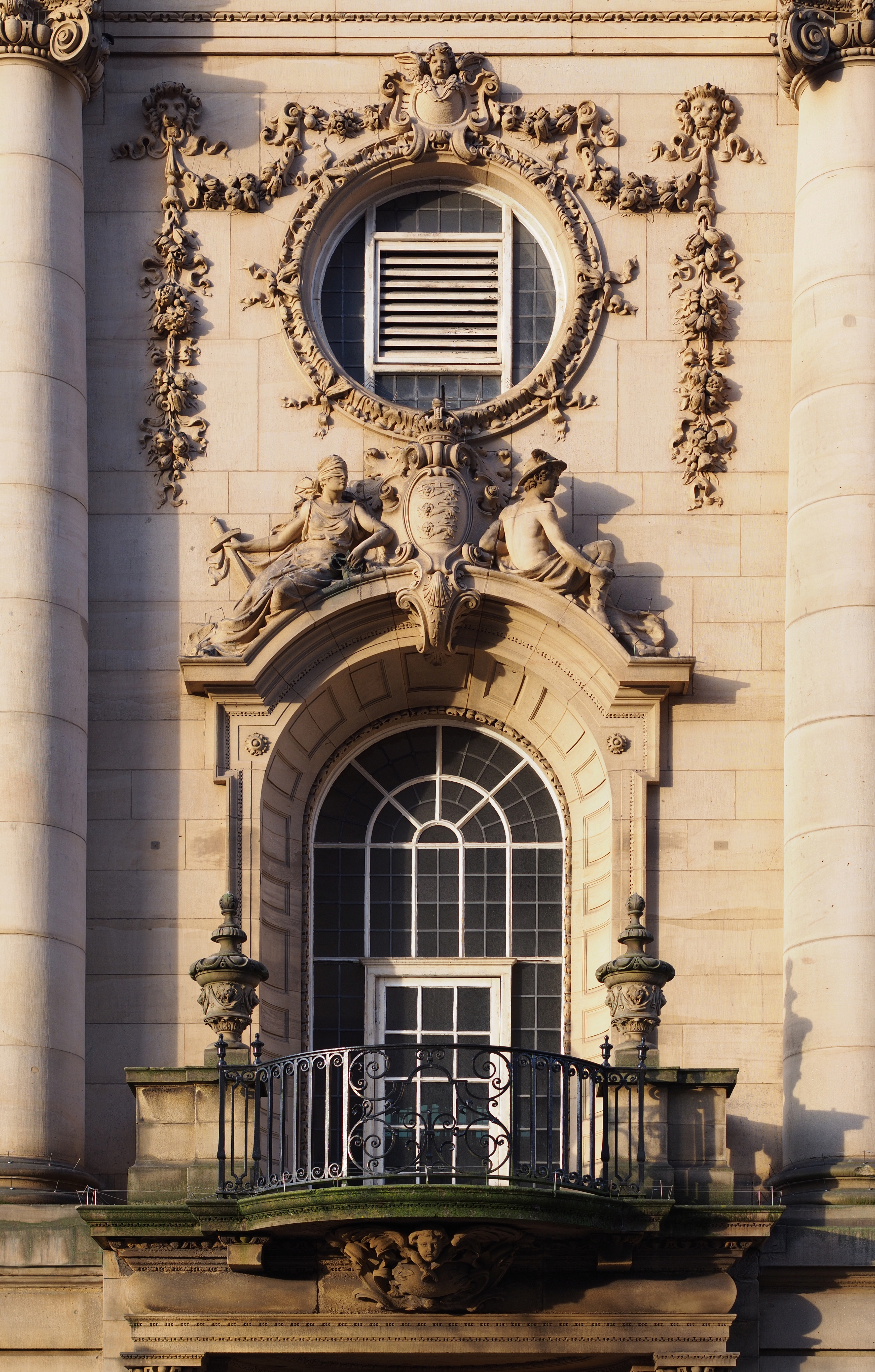 Balcony and relief above the front door of Sessions House, Preston